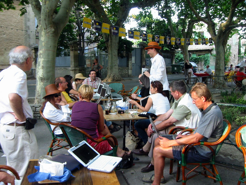 Wifipicnicing in Maussane-les-Alpilles (Bouches-du-Rhône, France).